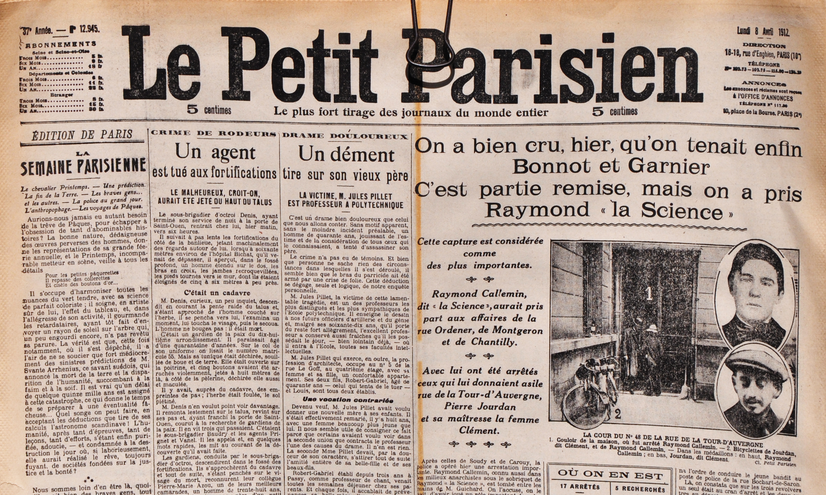 Front page of french newspaper "Le Petit Parisien", 1912-04-18